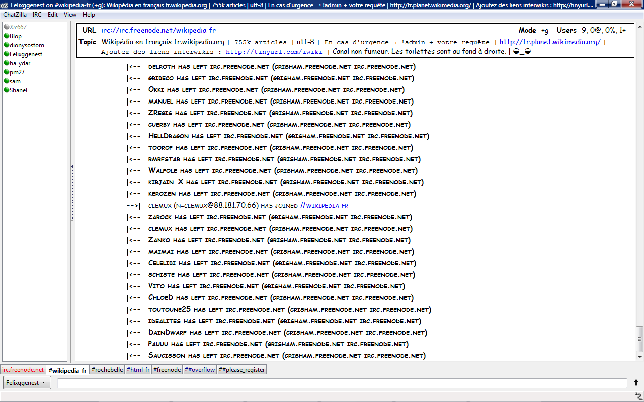 Netsplit on the server of Freenode [...]. (IRC software : Chatzilla)